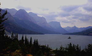 Wild Goose Island Overlook at Glacier National Park